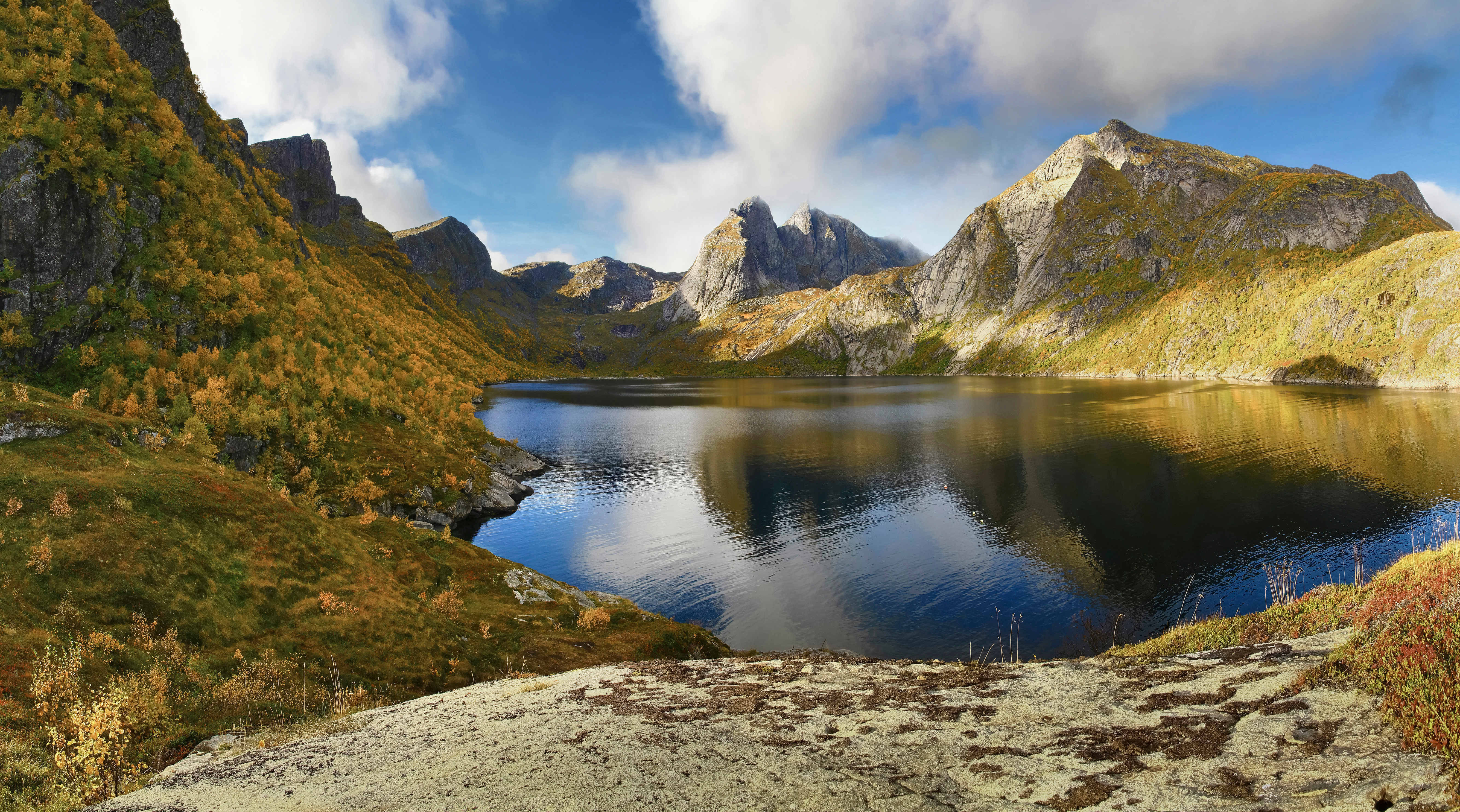 A view to Djupfjorden in Moskenesøya towards northwest, Lofoten, Nordland, Norway in 2010 September.